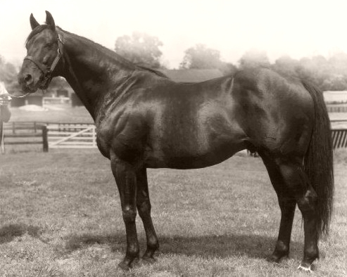 Round Table (1950) was an American Thoroughbred racehorse and a leading sire.